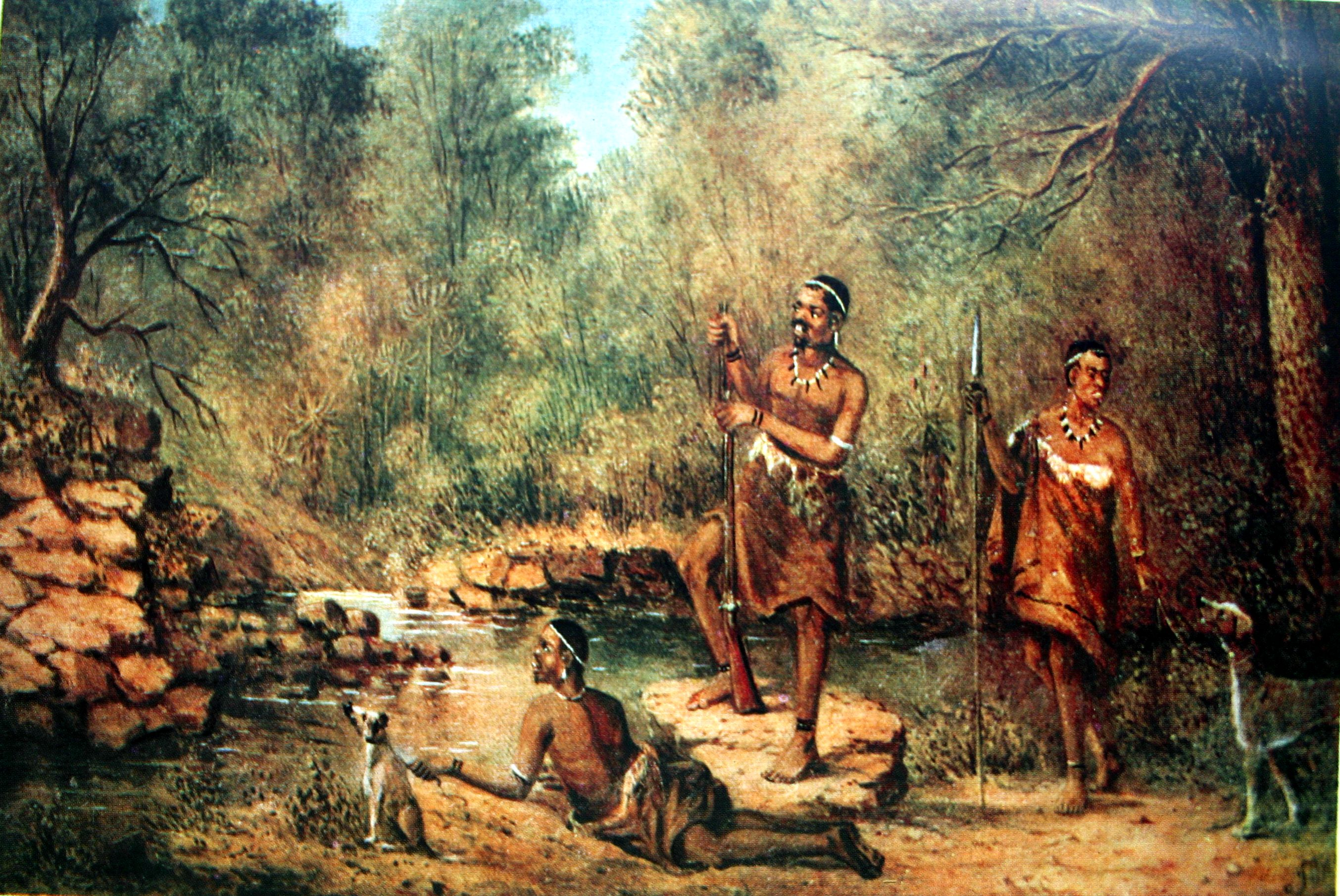 "Xhosas and Dogs Resting during a Hunt", painting by Frederick Timpson I'Ons (1802-1887)